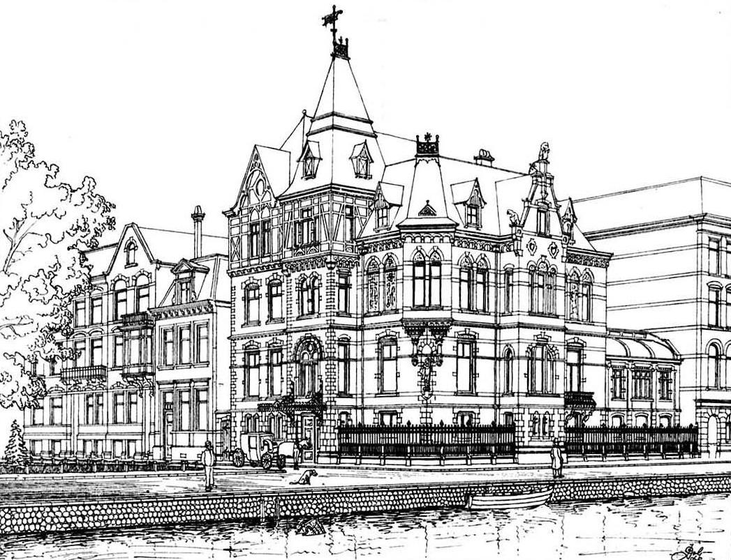 Villa Heineken, Tweede Weteringplantsoen 21, Amsterdam. 1890-1891.